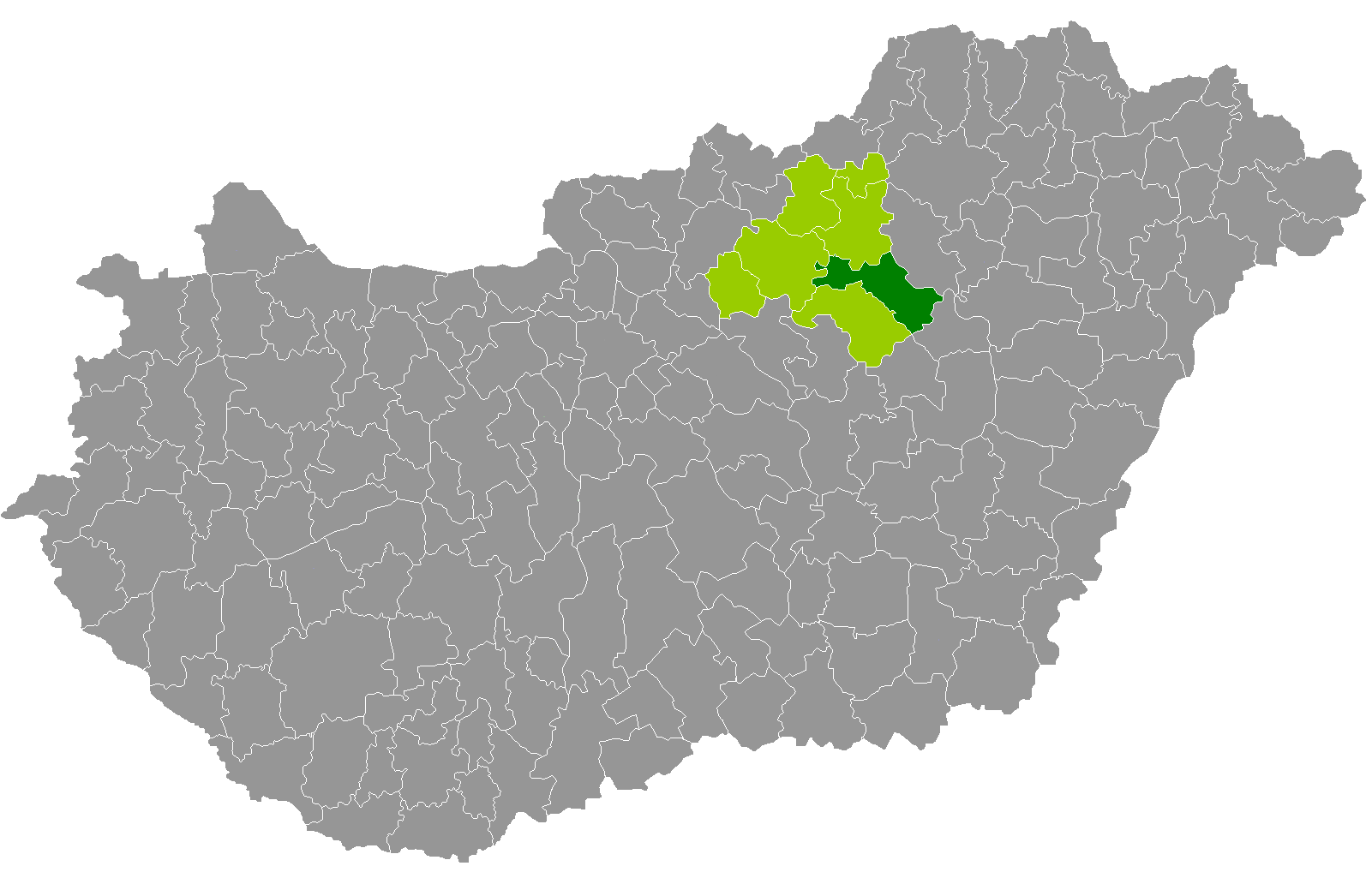 Location of Füzesabony District, Heves, Hungary